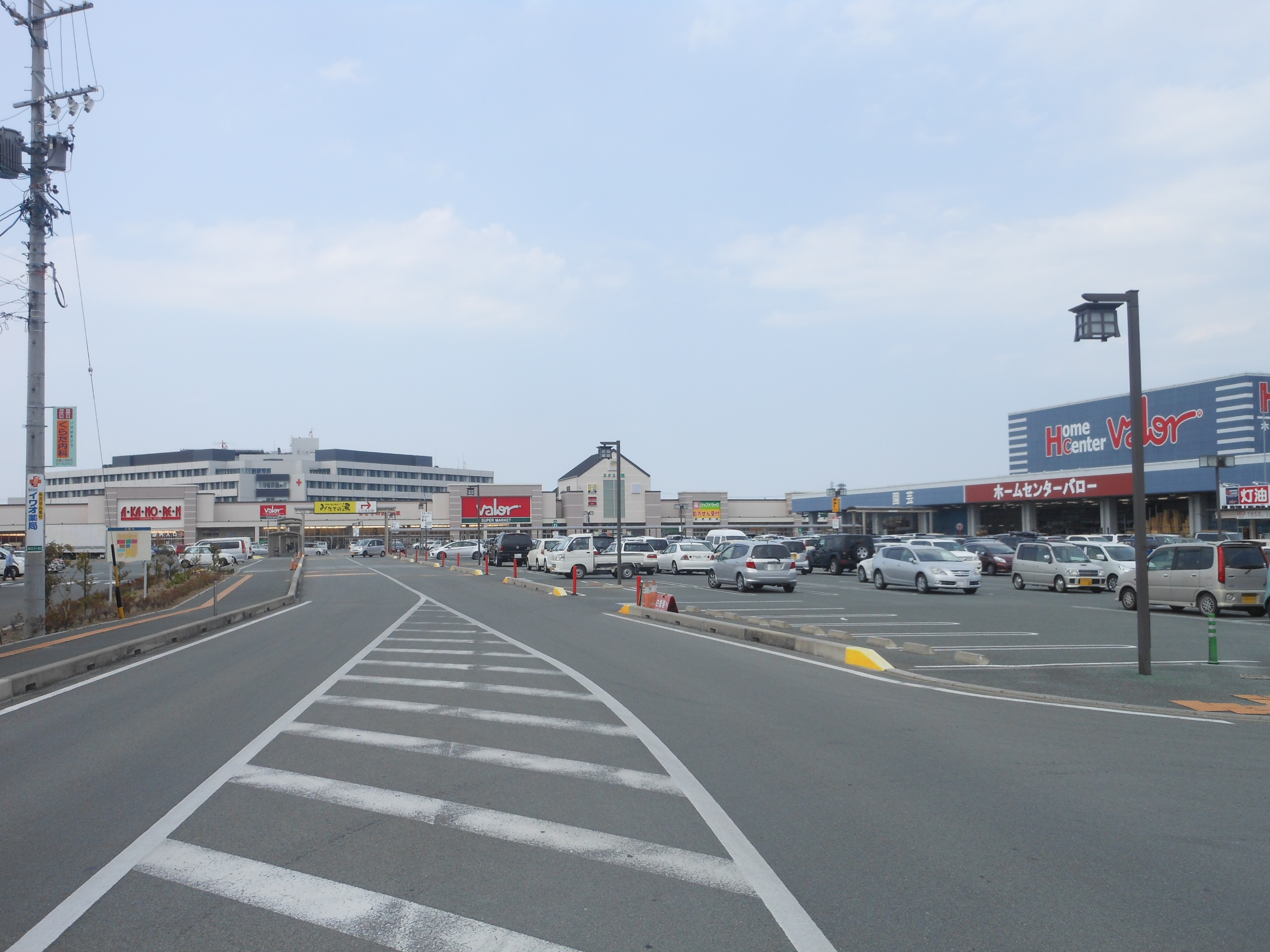 This is the shopping center "MTS Ise" in Ise, Mie, Japan.